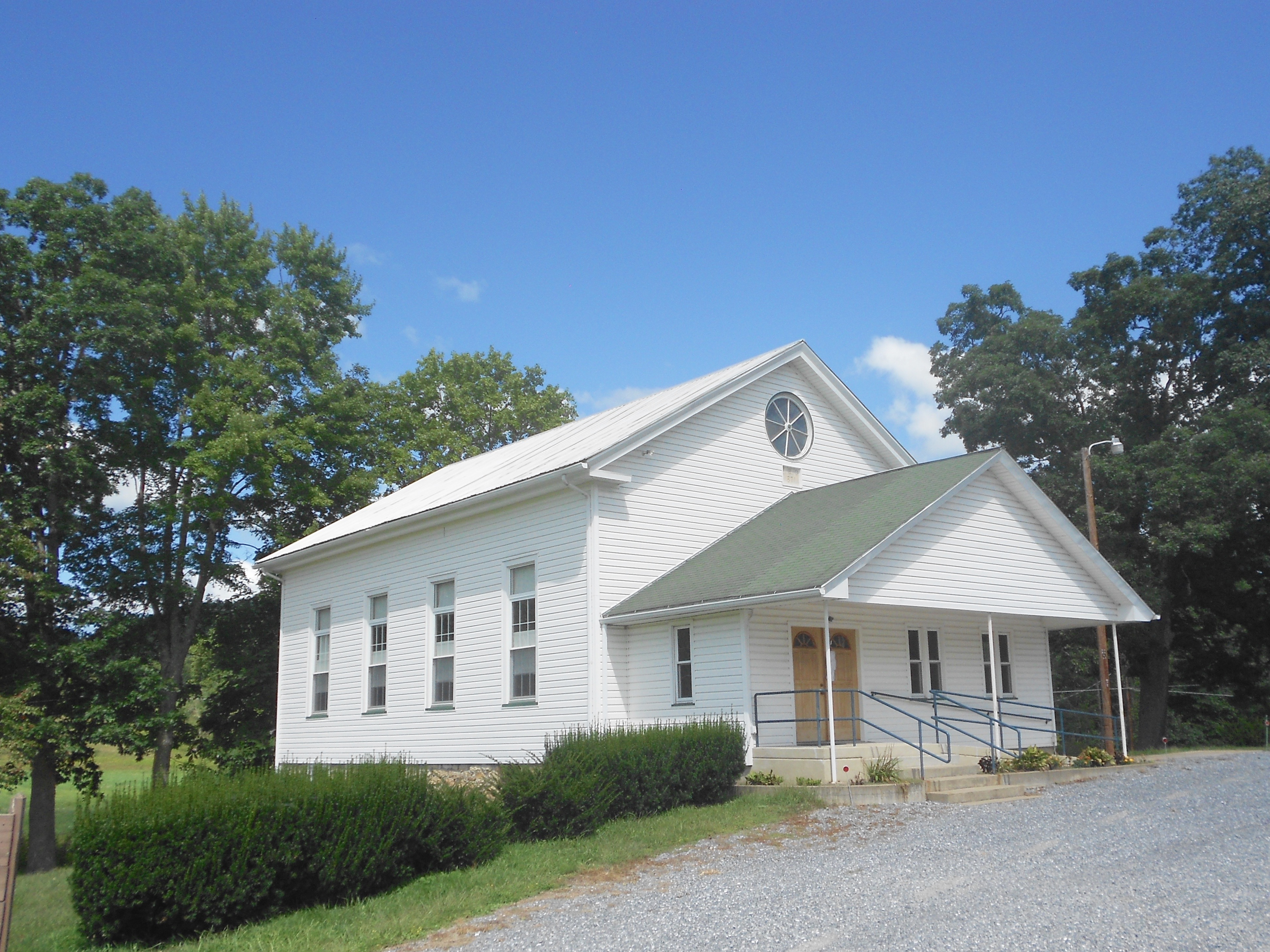 United Methodist Church in the tiny town of Donation, Huntingdon County, Pennsylvania